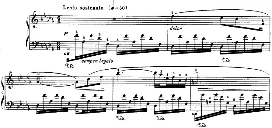 First two lines of Nocturnes Op 27 No 2